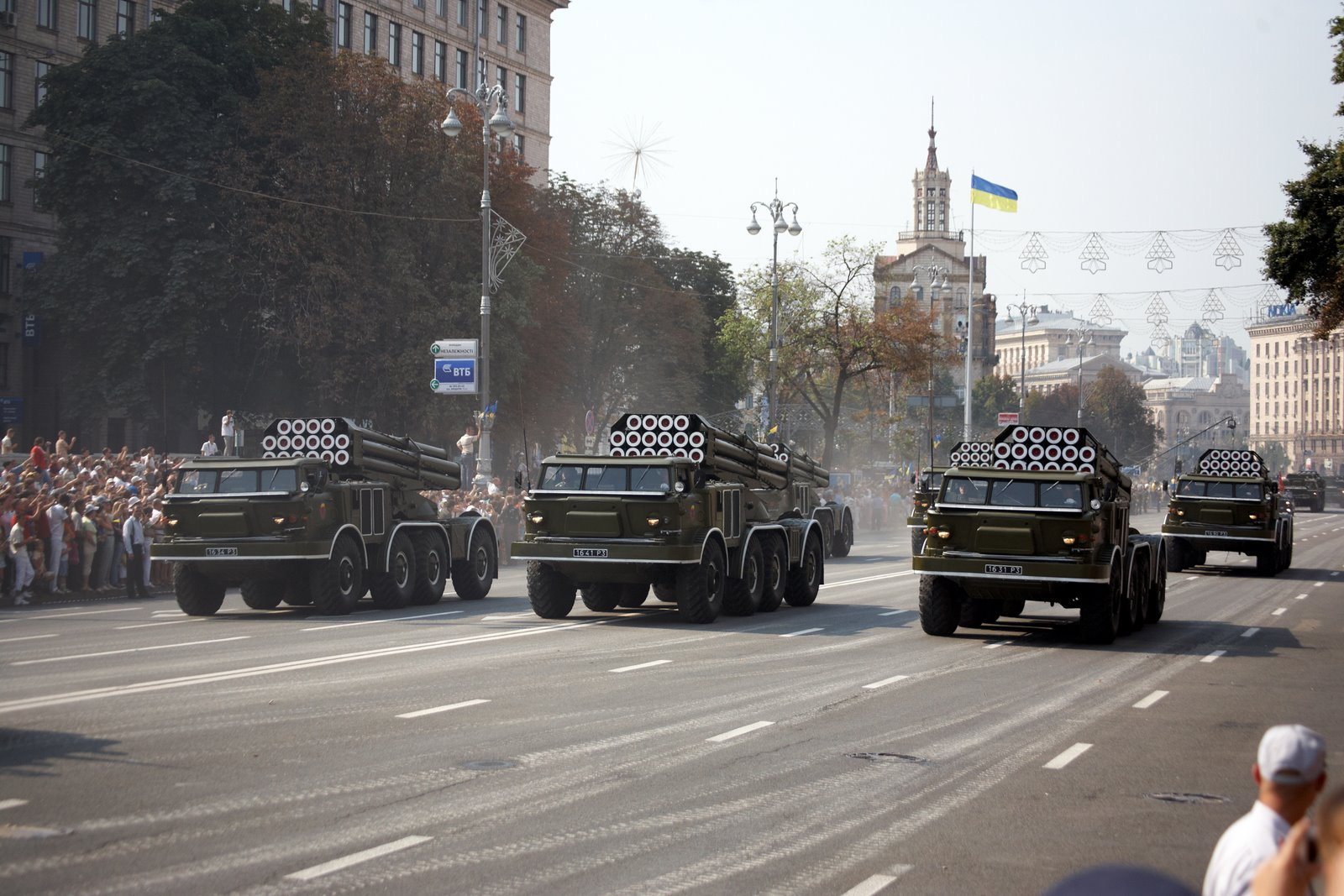 Ukrainian BM-27 Uragan launchers during the Independence Day parade in Kiev, Ukraine in 2008.